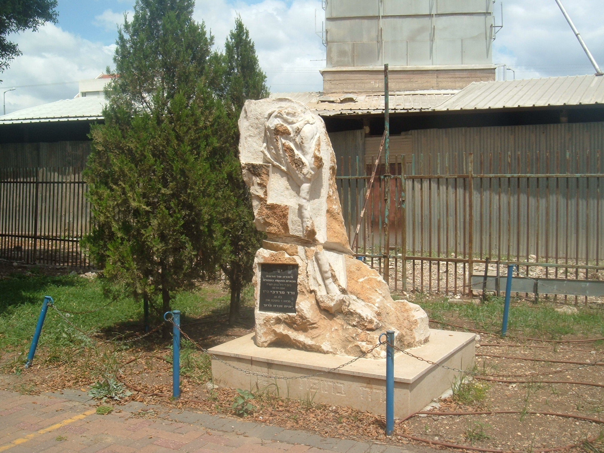 Monument in memory of Vered Mordechay, murdered in a suicide bombing in Afula in April 1994, situated in her School, "Oren" school in Afula. Sculpture by Reuven Gafni אנדרטה של האמן ראובן גפני לזכר ורד מרדכי שנרצחה בפיגוע מכונית התופת בעפולה באפריל 1994, המוצבת בחצר חטיבת הביניים "אורן" בעפולה בה למדה ורד.